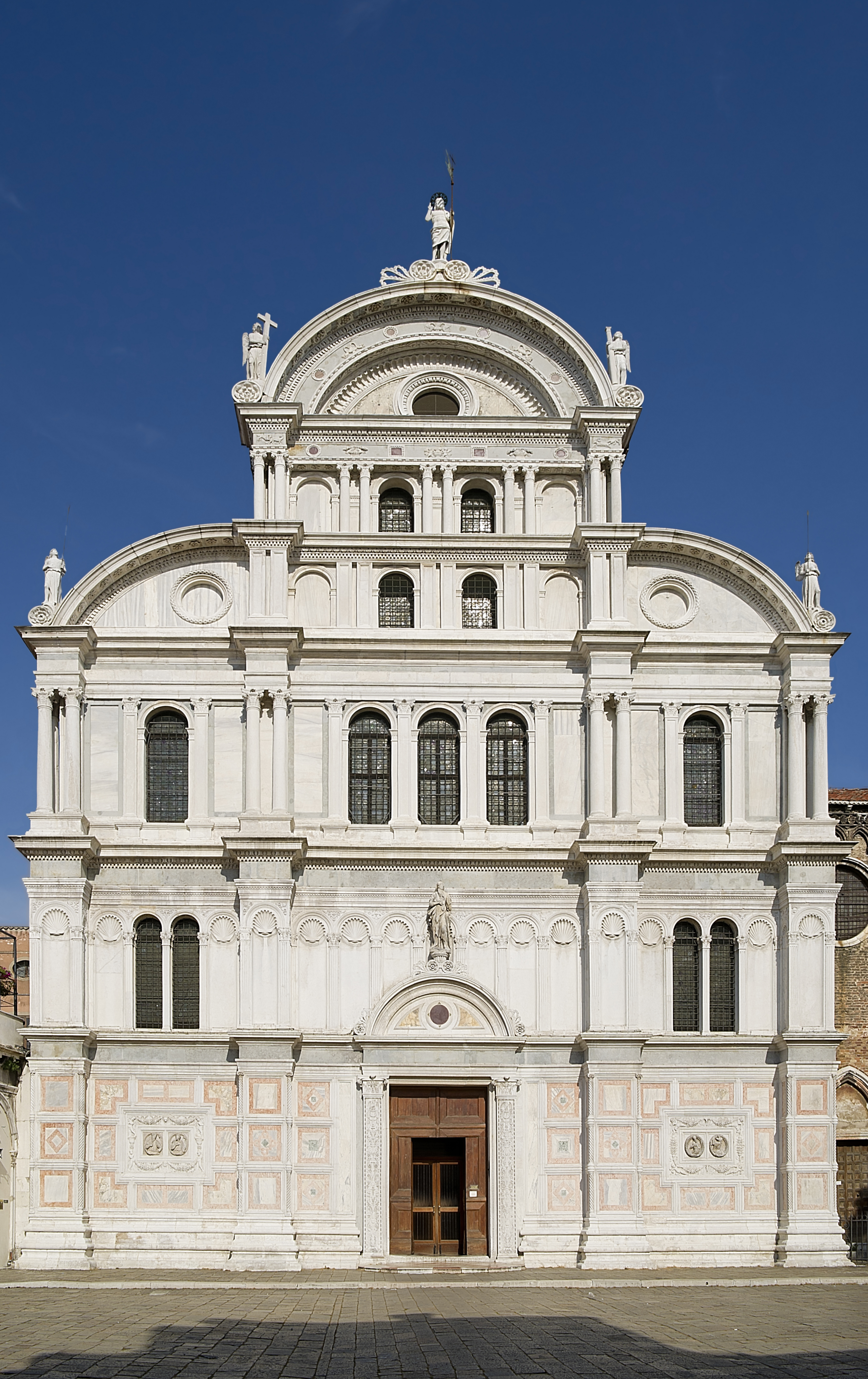 Church of San Zaccaria Venice. Facade by Mauro Codussi.